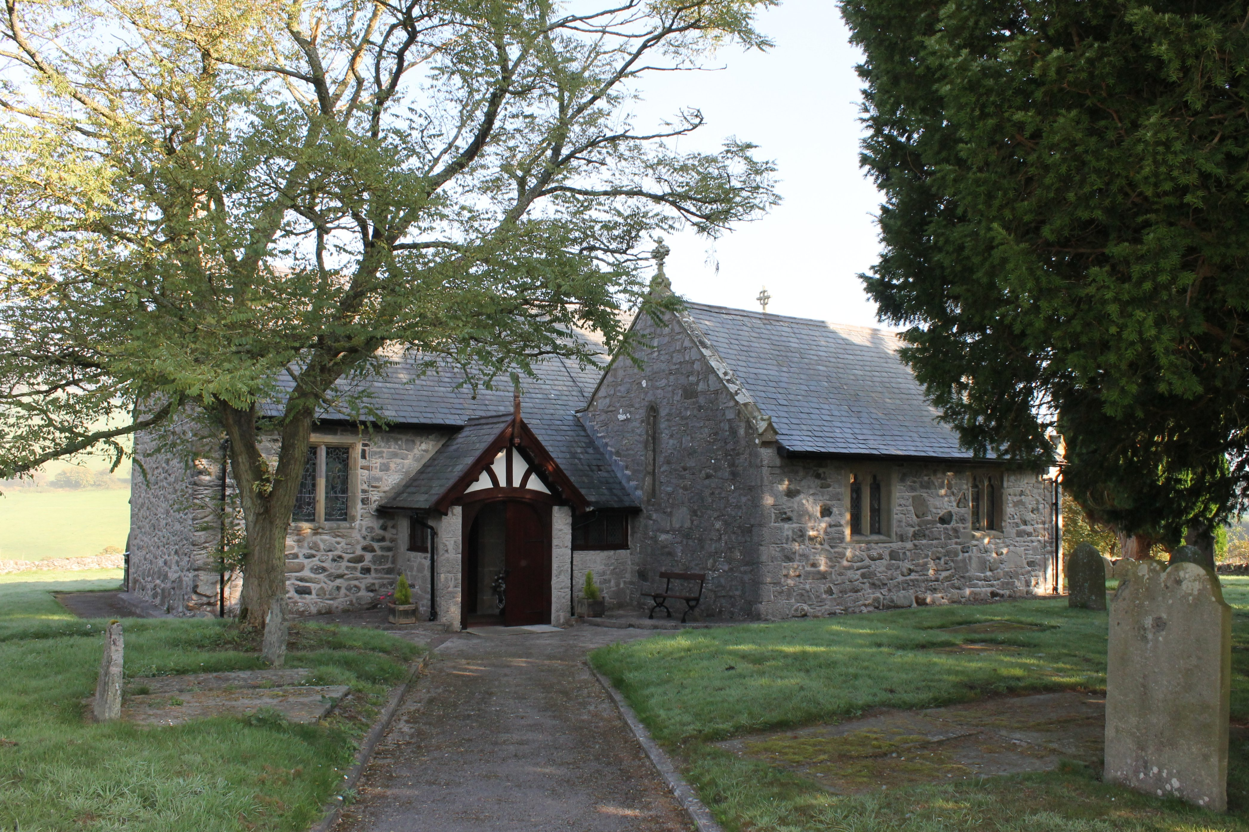 Church of St Tysilio, Bryneglwys, Denbighshire. 15th century, Grade II* listed.